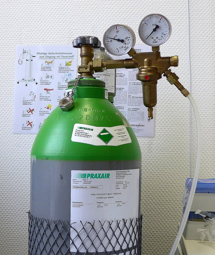 Co2-N2 bottle of Praxair